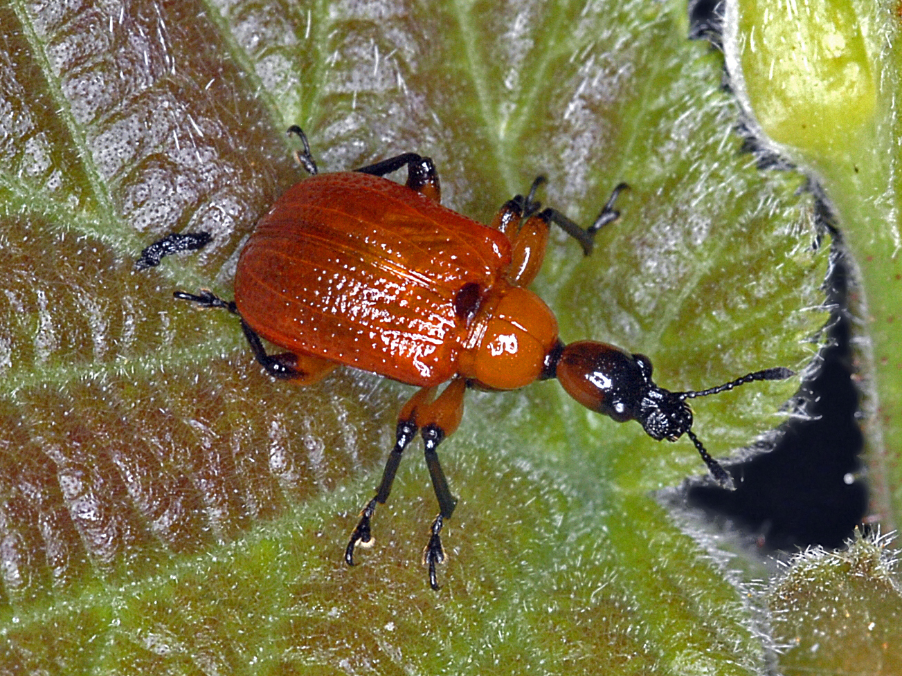 Apoderus coryli. Vi Superiore, Genova, Italy